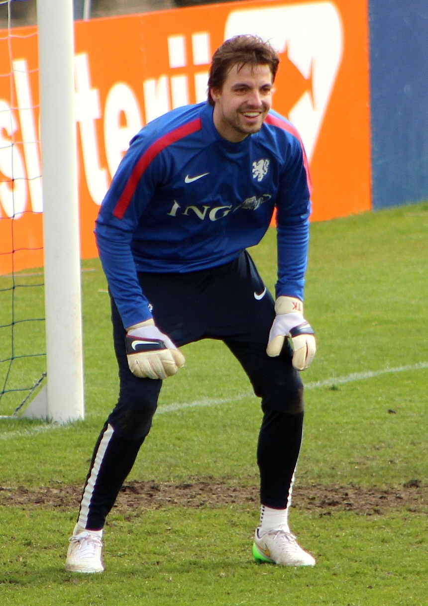 Tim Krul training with the Netherlands national team on 30 March 2015.